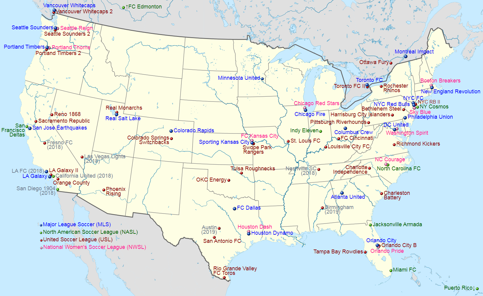 Updating the map File:2015 Professional Soccer Teams in USA Canada.png for use on the Unites States soccer league system page. Editable version is available here: User:Trödel/soccer_map using location map templates and then screenshot the results for use on that page. Screen shot works better than embedding the location map templates on the page (or creating map template) because using those tools has an undesirable result when readers click on the map to see a larger version.